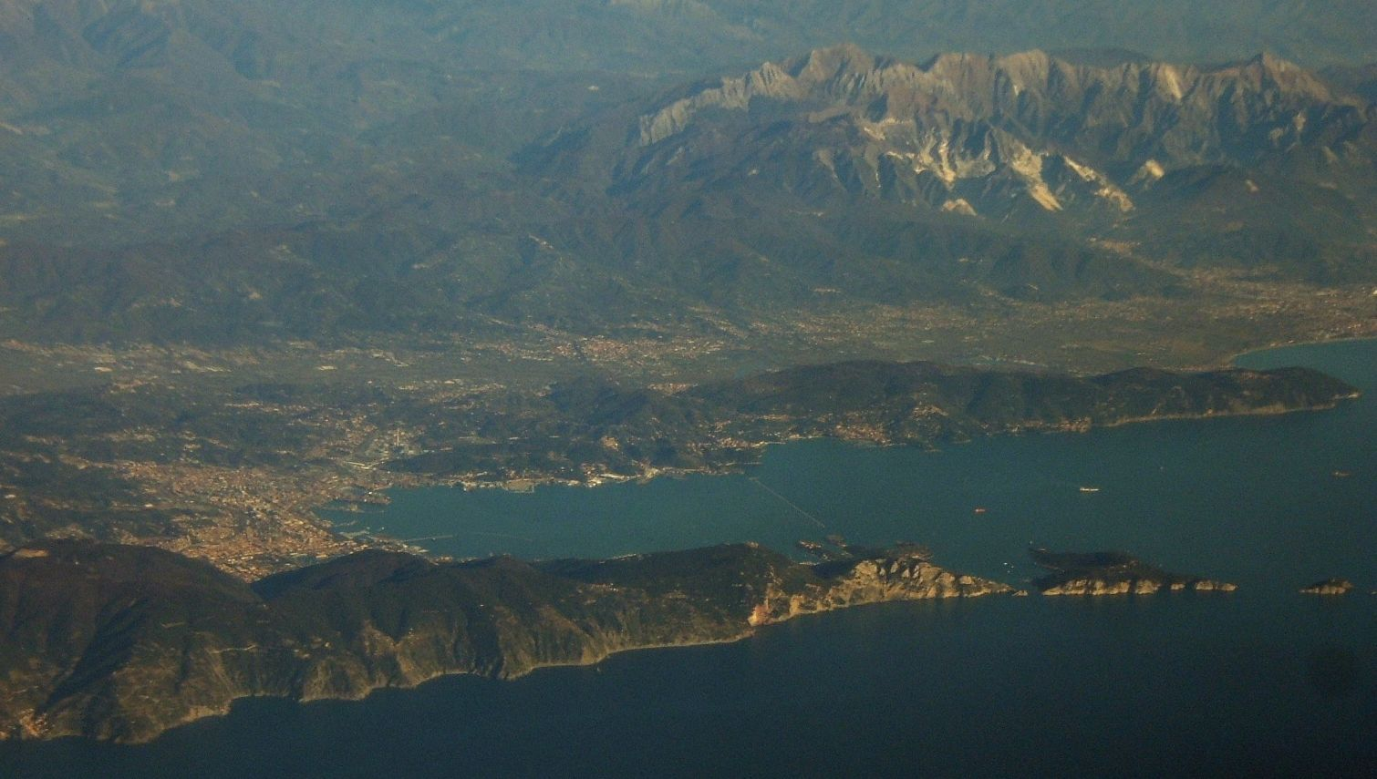 Aerial View of the Golfo della Spezia (middle) and valley of Magra river, Italy. Coast of Cinque Terre. Mountains: Alpi Apuane.